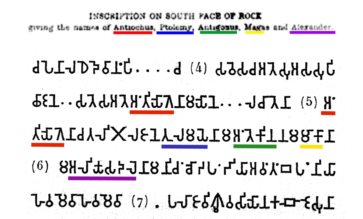 Ashoka Edict 13 at Khalsi Greek kings